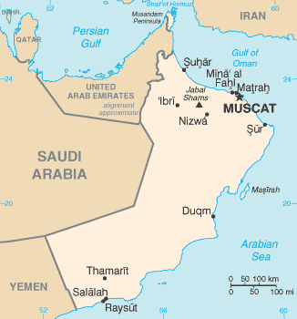 Detail Map of Oman